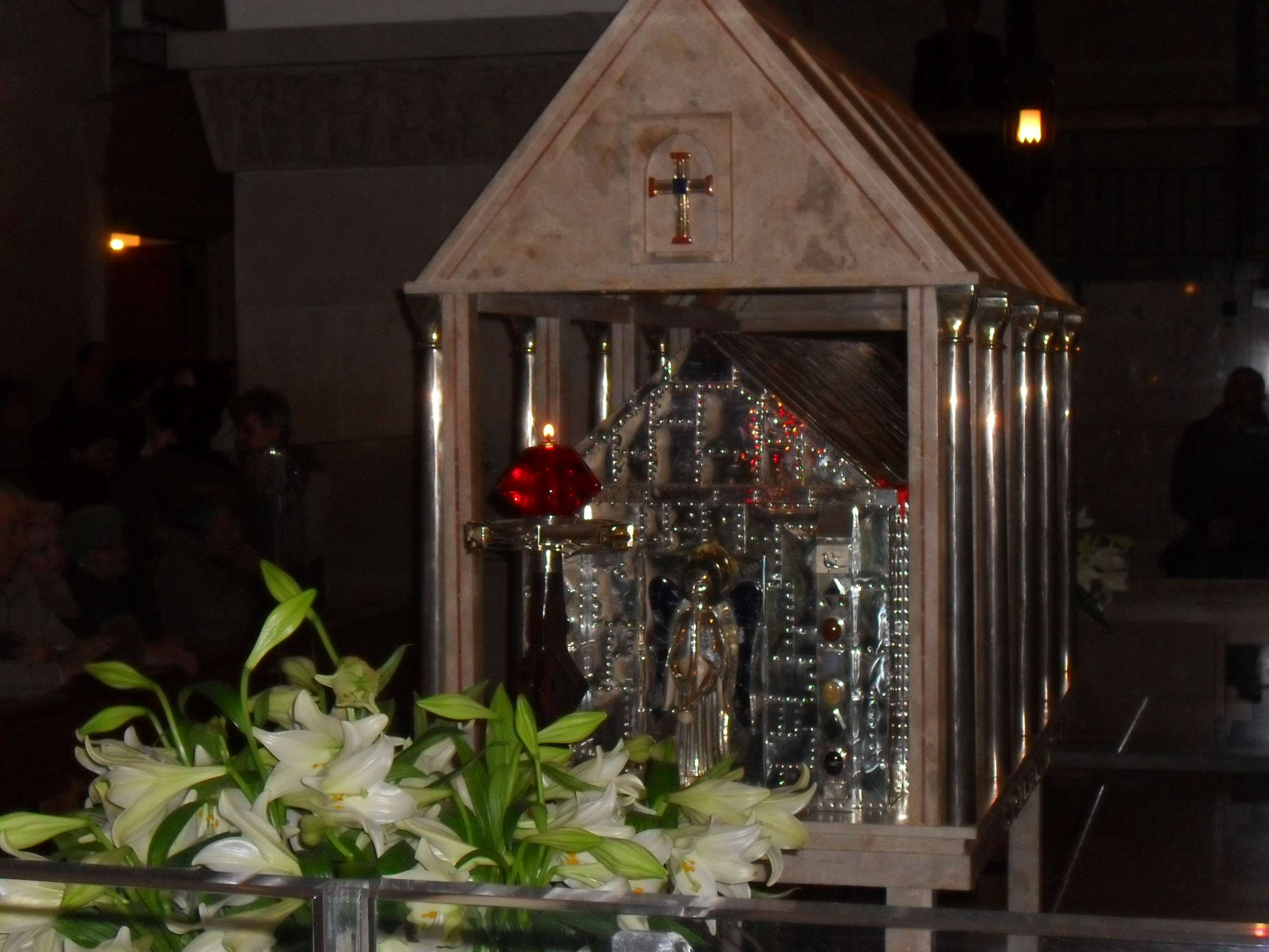 The tomb of Padre Pio in the crypt of the church, San Giovanni Rotondo.